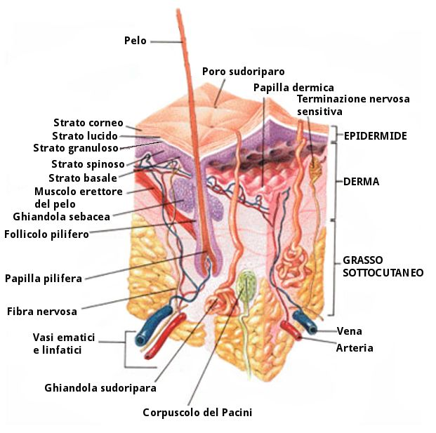 Anatomy of the human skin with English language labels. Arabic language description translated by: Tarawneh